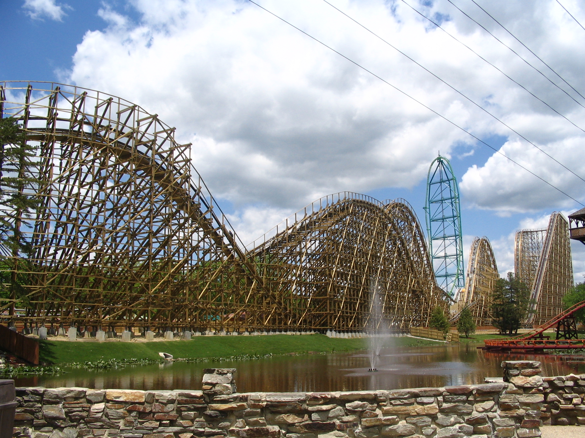 El Toro at Six Flags Great Adventure